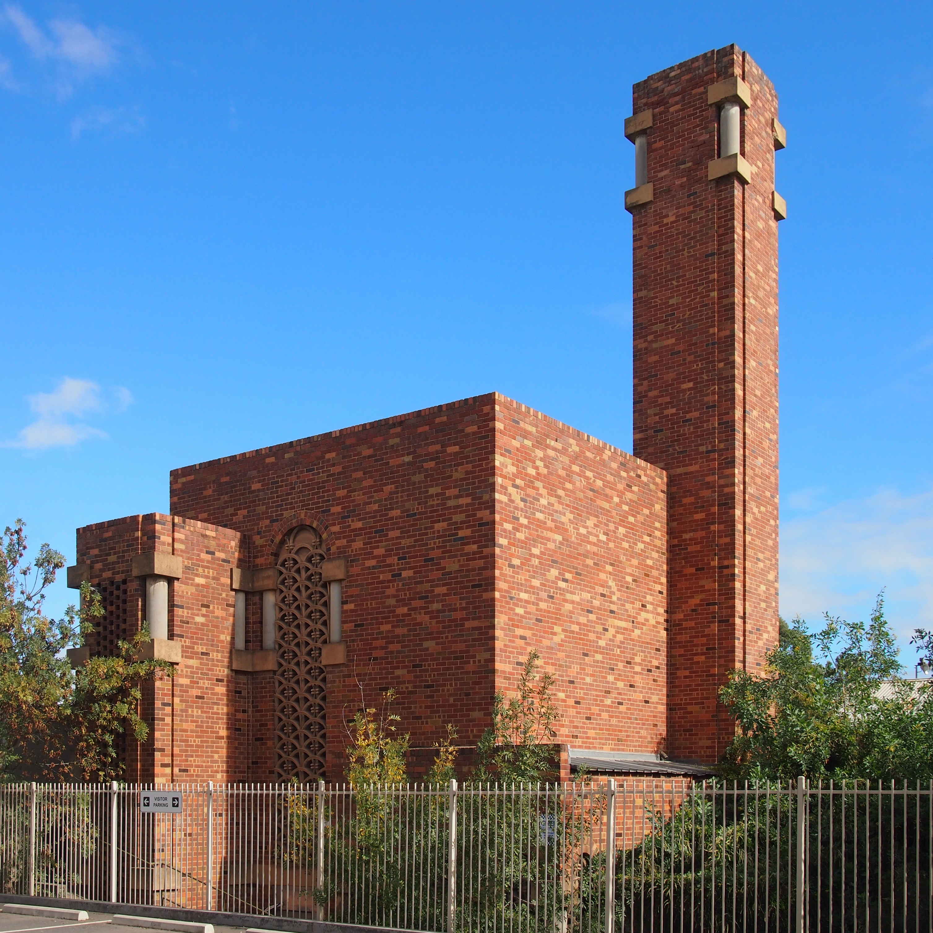 The incinerator designed by Walter Burley Griffin in 1935, completed in 1937 at 34 (behind 36) West Thebarton Road, Thebarton, South Australia , and was decommissioned in 1964. From the Australian Heritage Database: "The building was designed for the disposal of garbage and household rubbish. It incorporated a special reverberatory furnace, the main feature of which was that ash could be discharged at a level to fill in the pit and enable the area to be reclaimed. Garbage was tipped in at road level and disposal effected by gravitational burning." From State Library of South Australia: "It was designed as an attractive building to mollify the local council, which did not want it located in their council residential area."